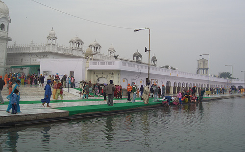 Sikhism Related Photo of Steel Kara - one of five articles of faith.